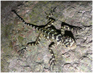 Tropidurus Plica